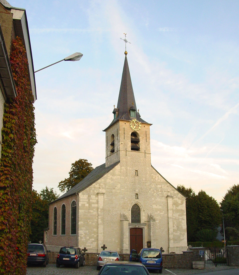 St Jan-de-Doper (St John the Baptist) church in Ossel, Belgium